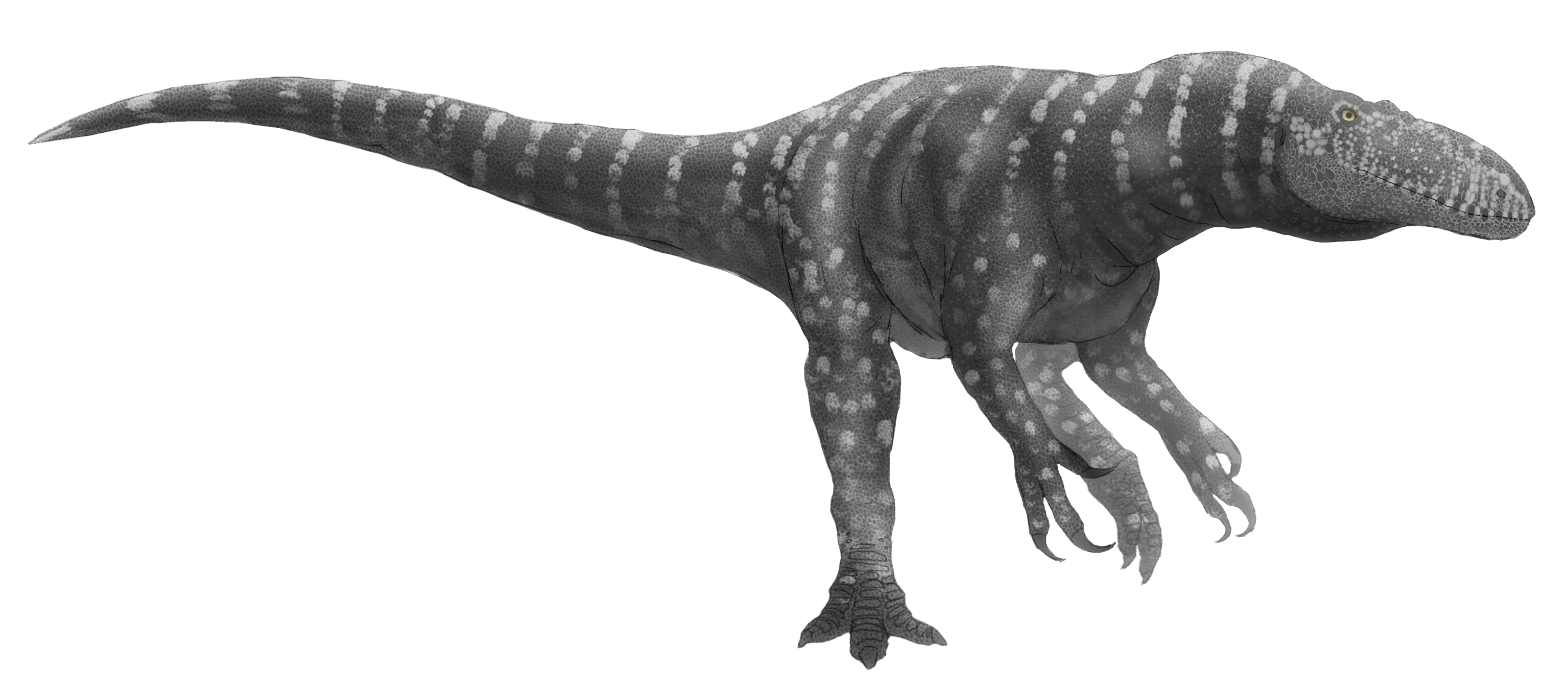 A restoration of Afrovenator abakensis